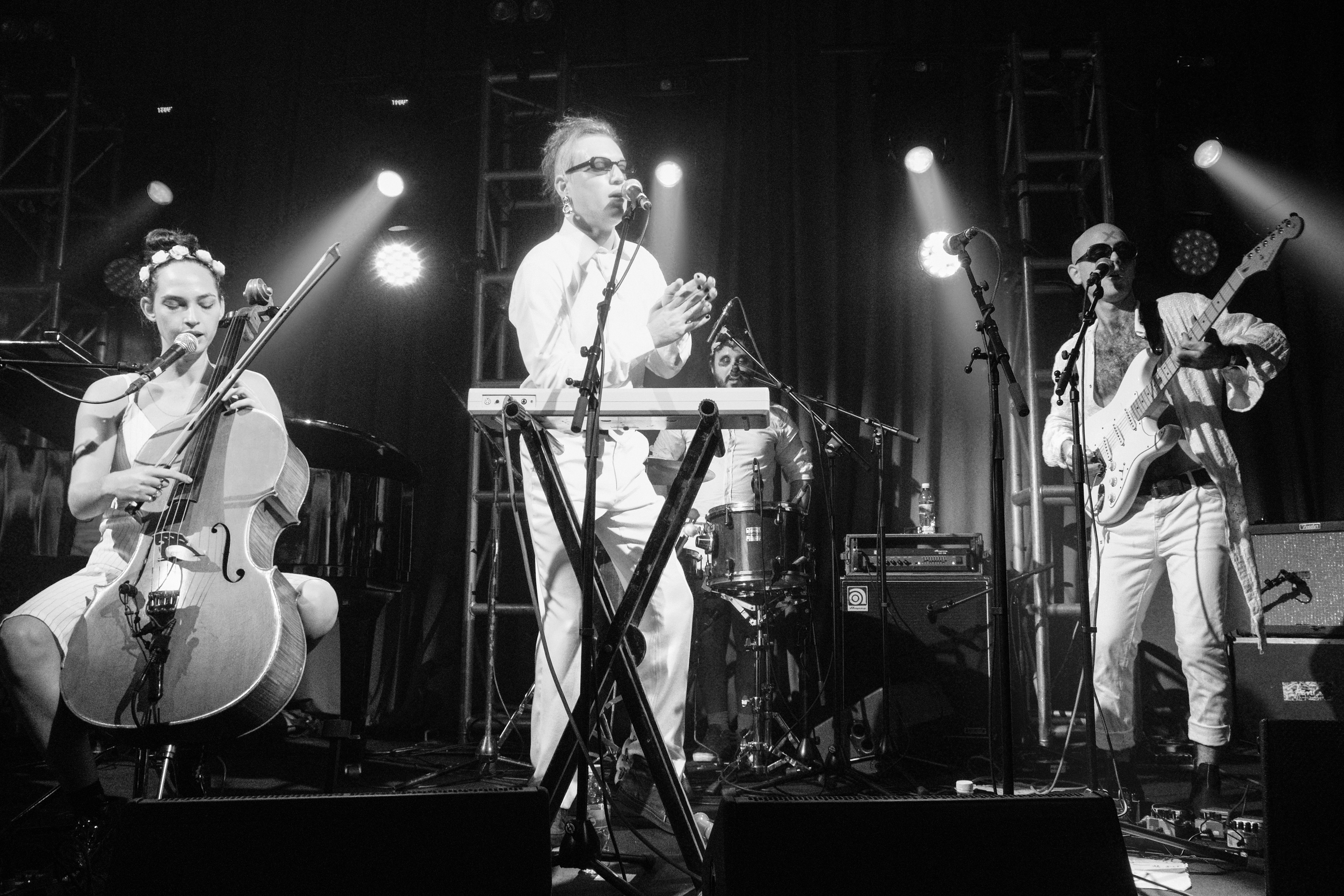 The White Screen performing, November 2017